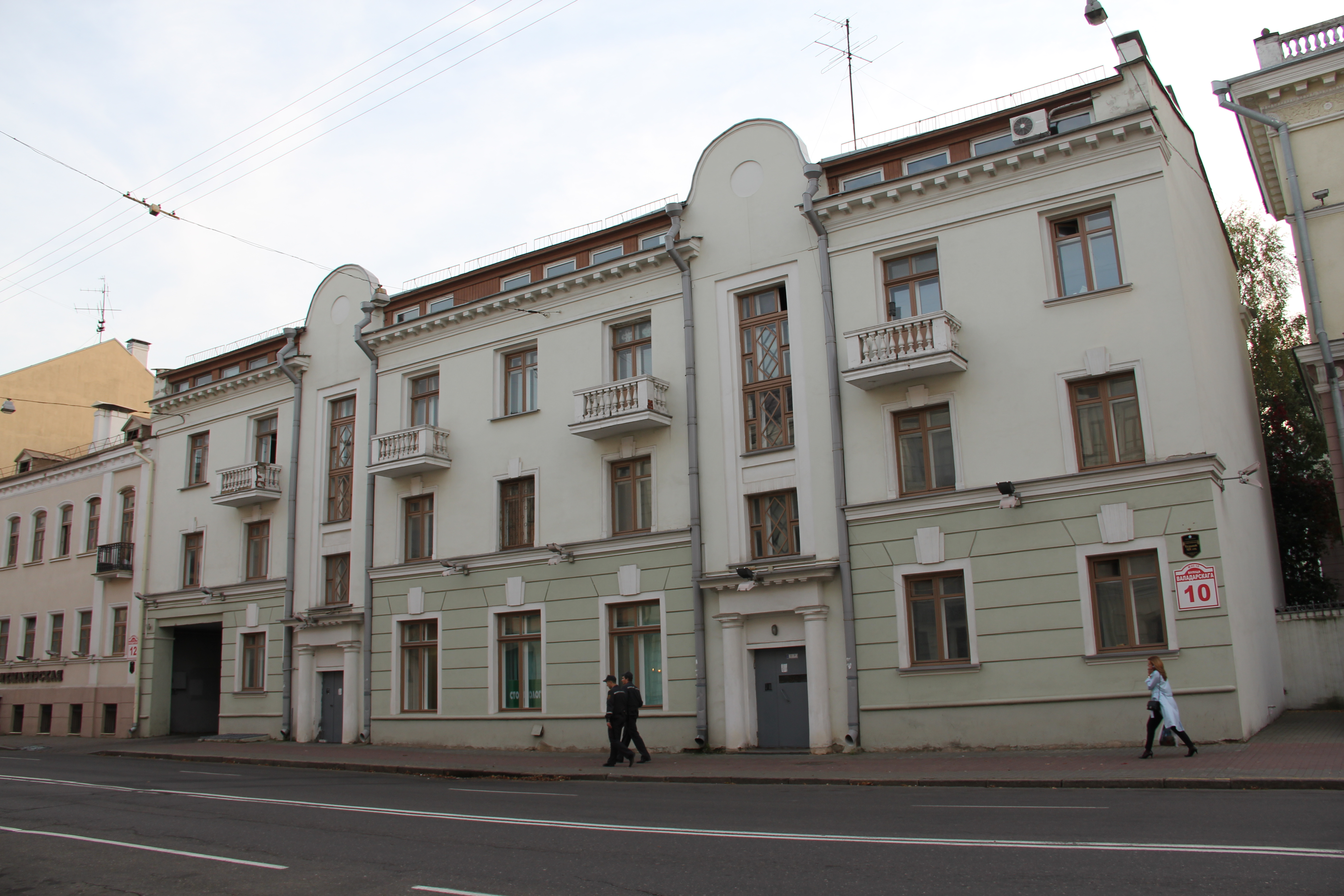 Беларуская (тарашкевіца): Будынкі. г. Менск This is a photo of Belarusian heritage monument. Reference number: 712Г000023 ( WLM)